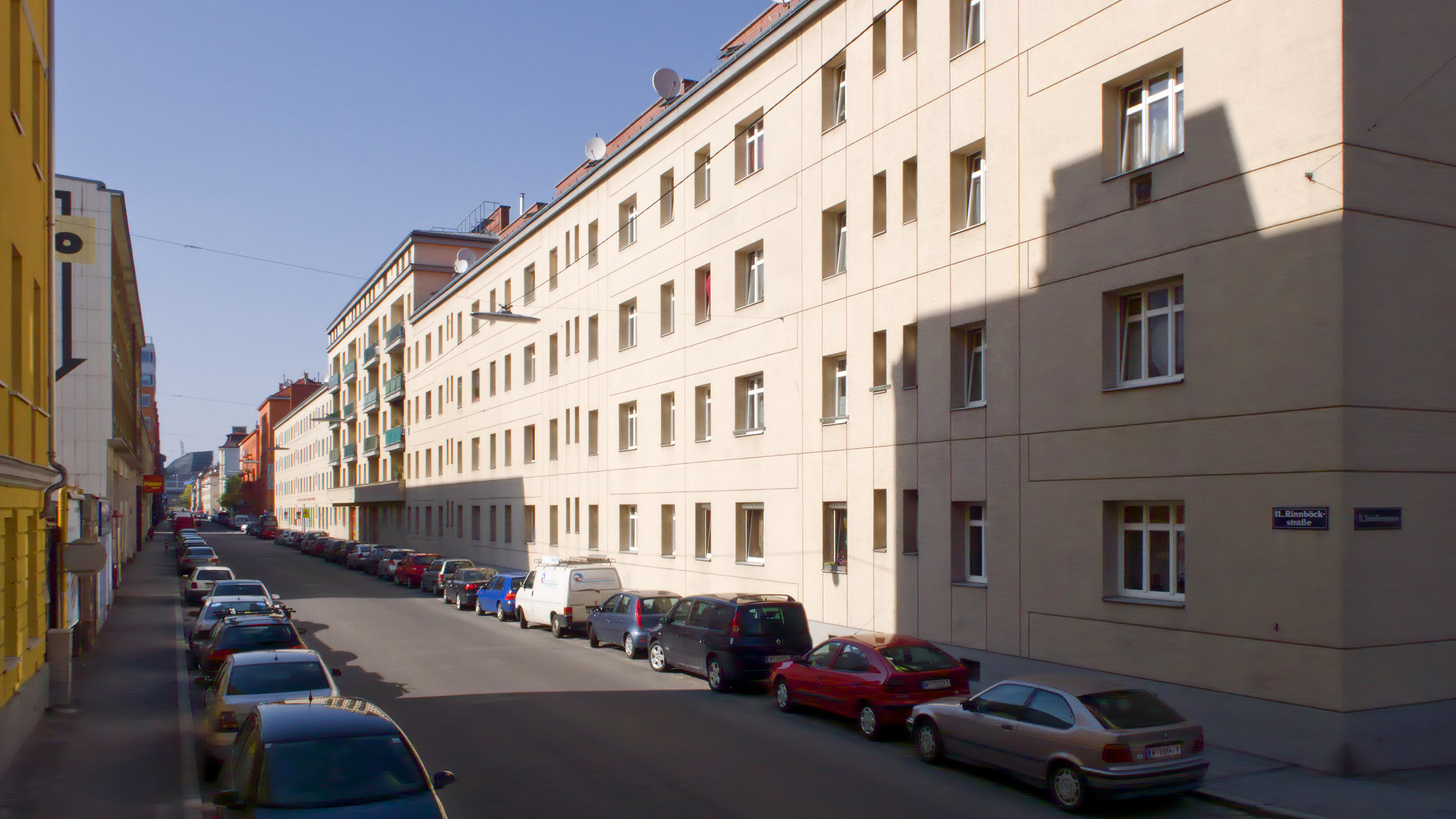 Rinnböckstraße in Vienna Simmering